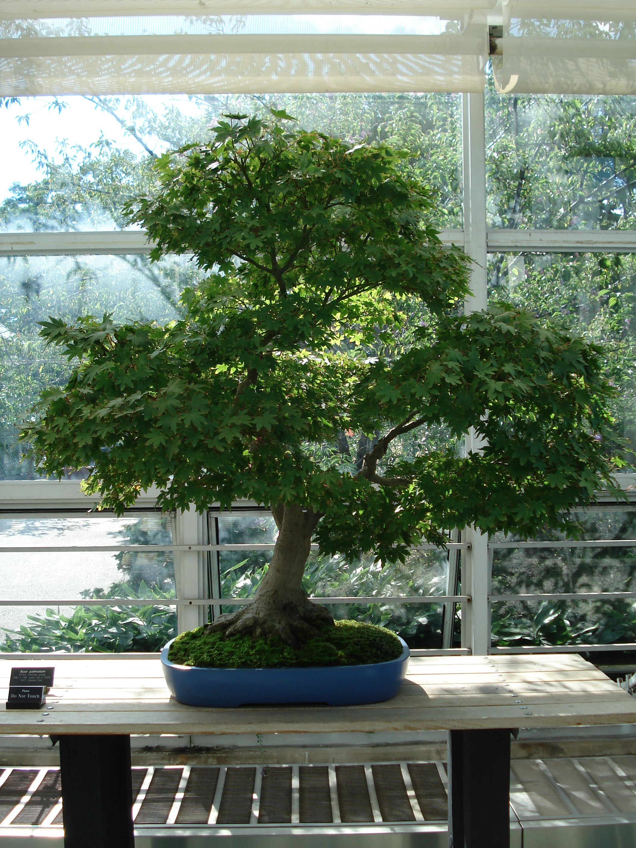 A very old Acer palmatum (Japanese Maple) bonsai of the "Informal Upright" style, from the Brooklyn Botanic Garden, in New York City. Copyright 2007 Jeffrey O. Gustafson, released to Commons under the GFDL and CC-BY-SA-3.0.